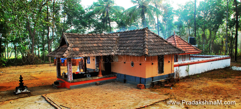 elangavathu kavu is a bhadrakali temple. situated near varappetty, moovatupuzha, Ernakulam dist, kerala india